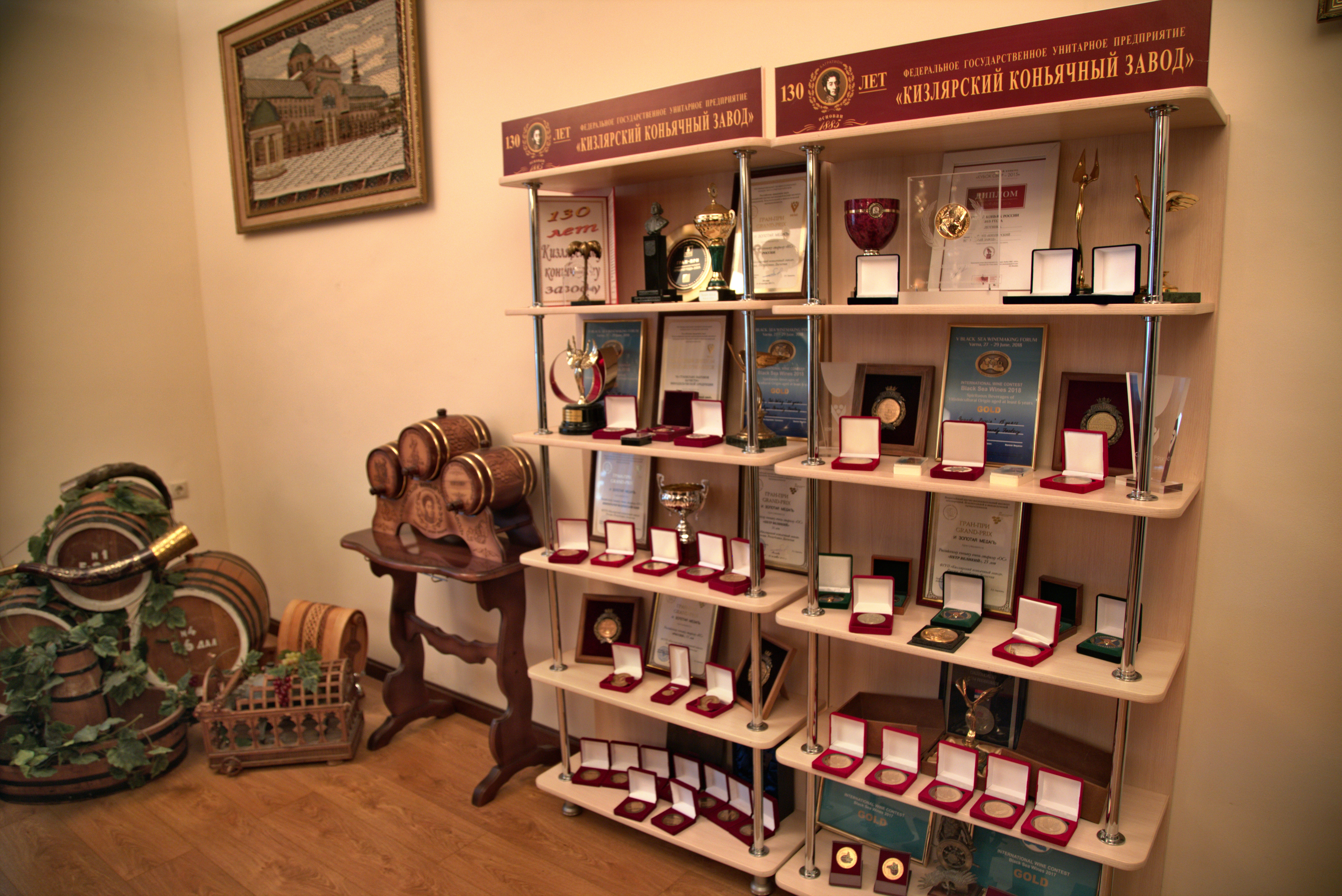 «Кизлярский коньячный завод»